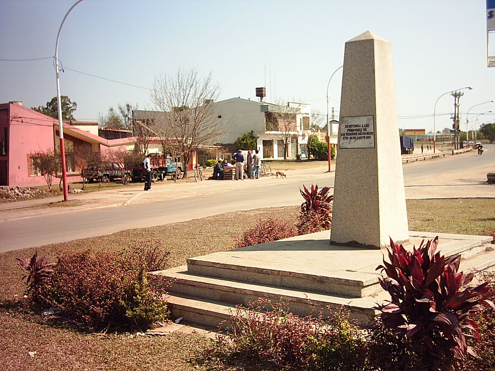 A monolith in tribute to the people who founded San Fernando del Río Negro in 1750. It is situated in Av. 25 de Mayo 2000 approximately, in Resistencia, Chaco, Argentina. Legend says Resistencia to the Founders of San Fernando del Río Negro 1750 - August 26, 1950.